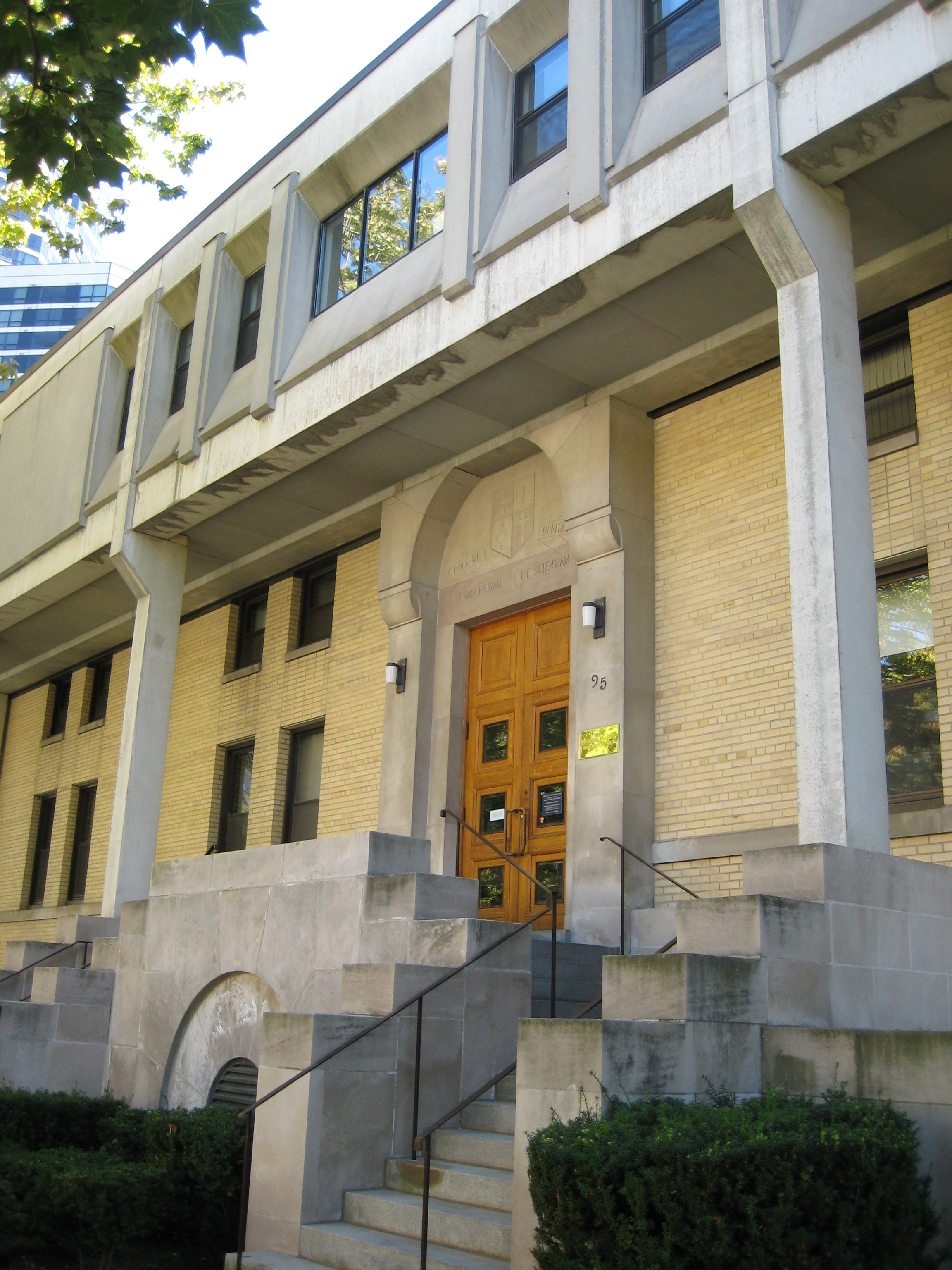 Cardinal Flahiff Building at the University of Toronto